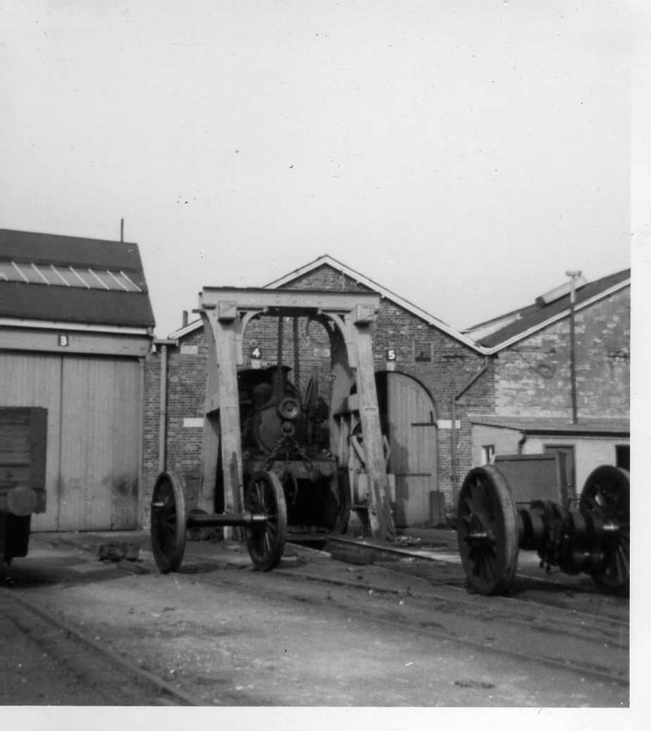 The engine shed at Ryde on the Isle of Wight.